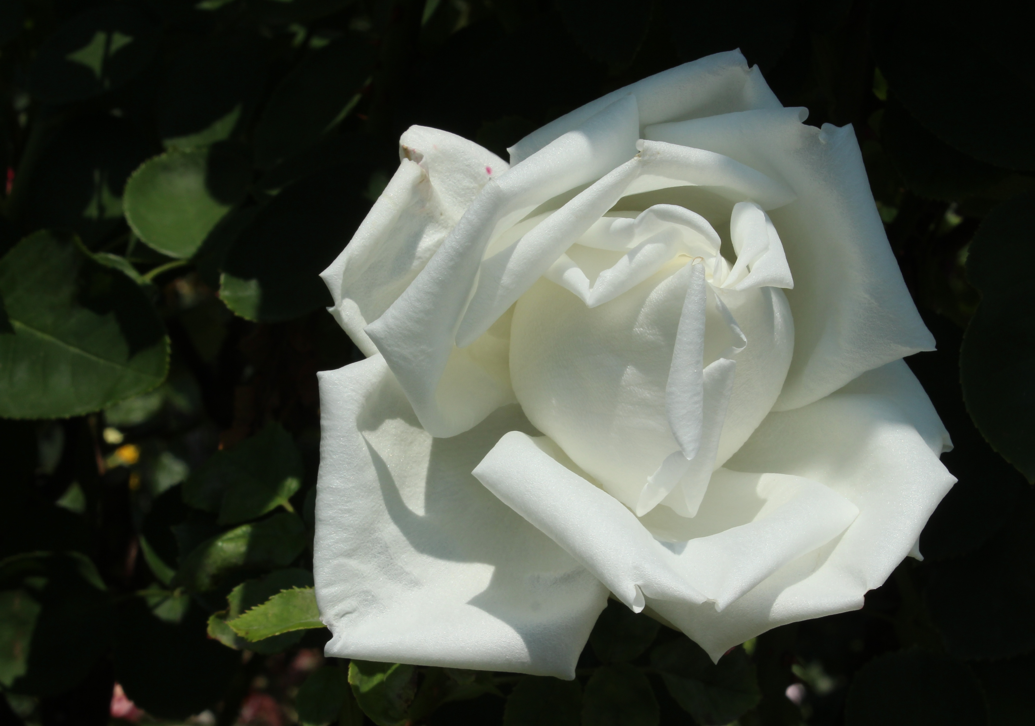 Rosa 'Frau Karl Druschki' in the Volksgarten in Vienna. Identified by sign.